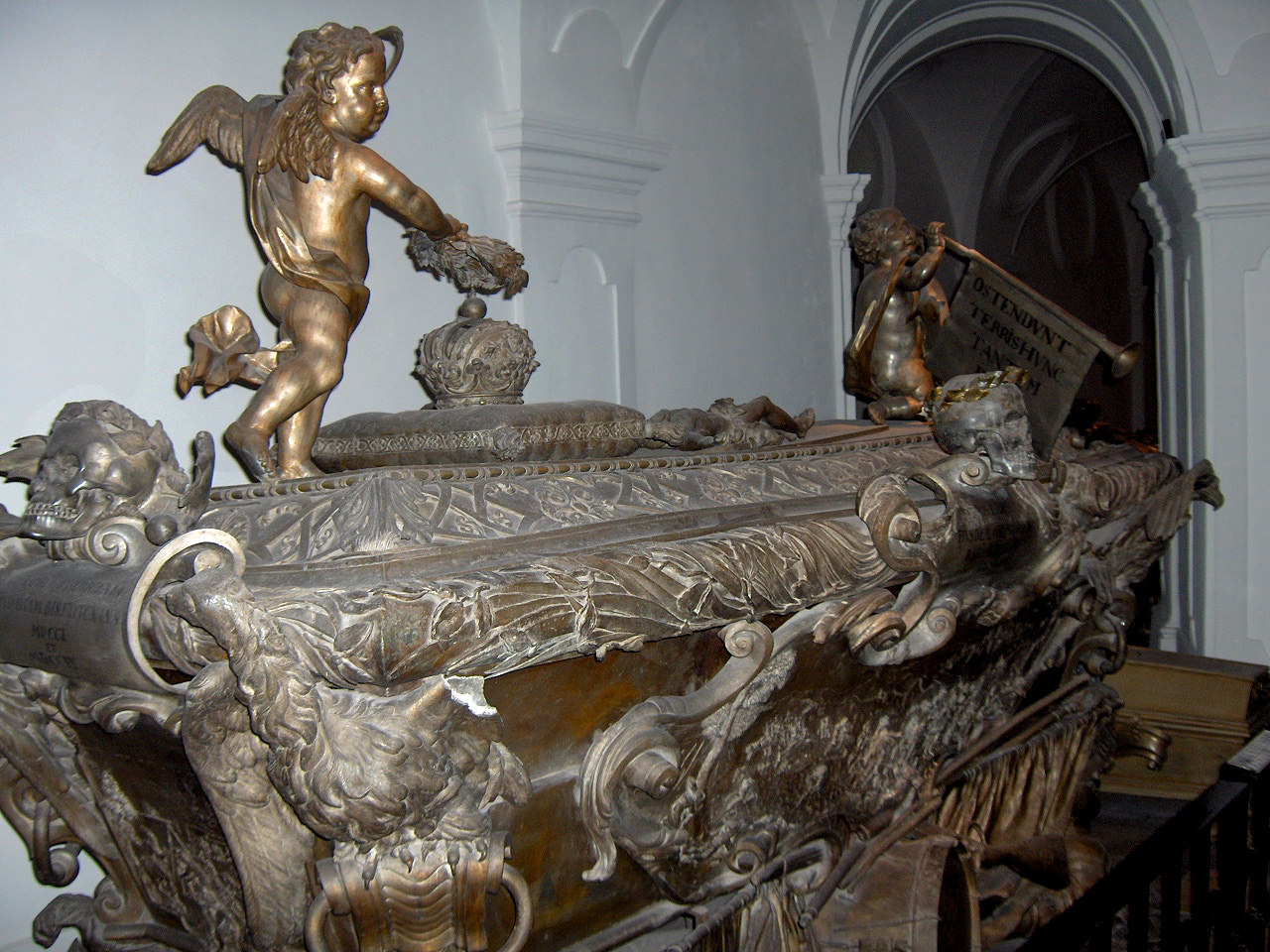 Tomb of Emperor Joseph I (1678 - 1711); Kaisergruft, Vienna